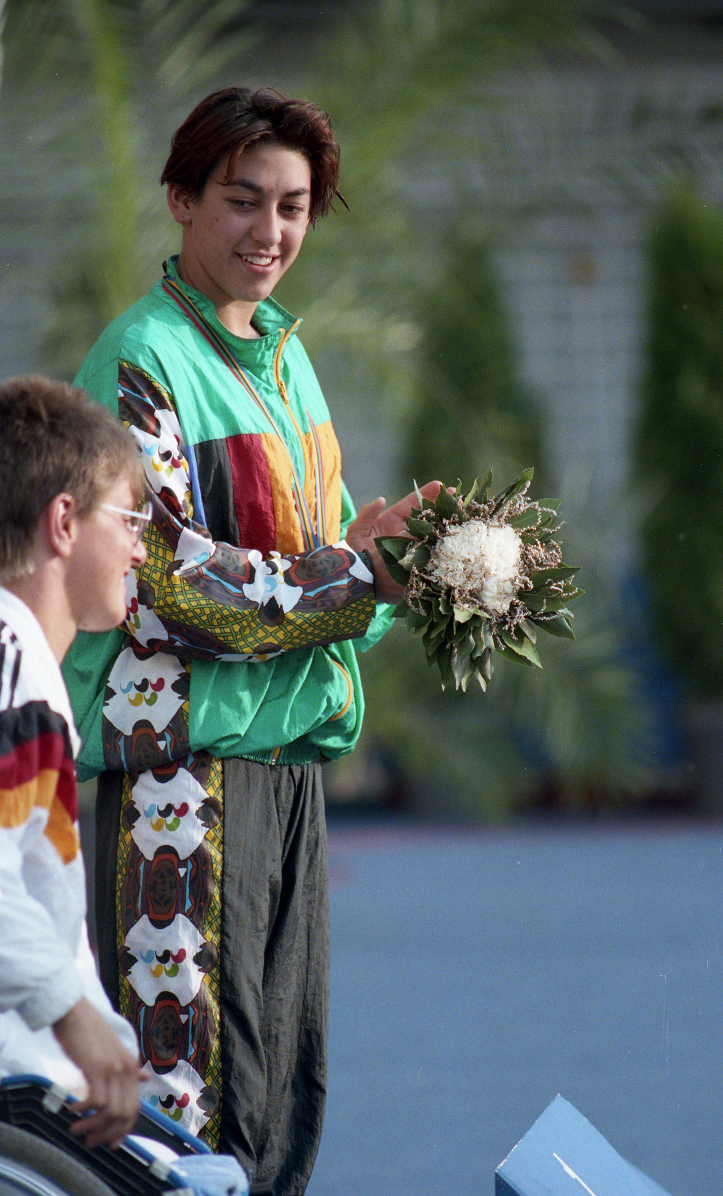 Australian swimmer Priya Cooper standing on the gold medal podium and German swimmer Britta Siegers on the silver podium at the Barcelona 1992 Paralympic Games.